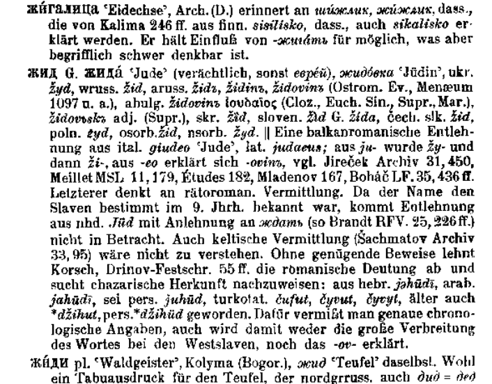 The word "жид" ("zhyd") in Max Vasmer's «Russisches etymologisches Wörterbuch» («Etymological Dictionary of the Russian Language»). Heidelberg, 1950—1958